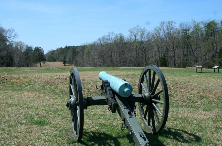 Canon at Fairwie